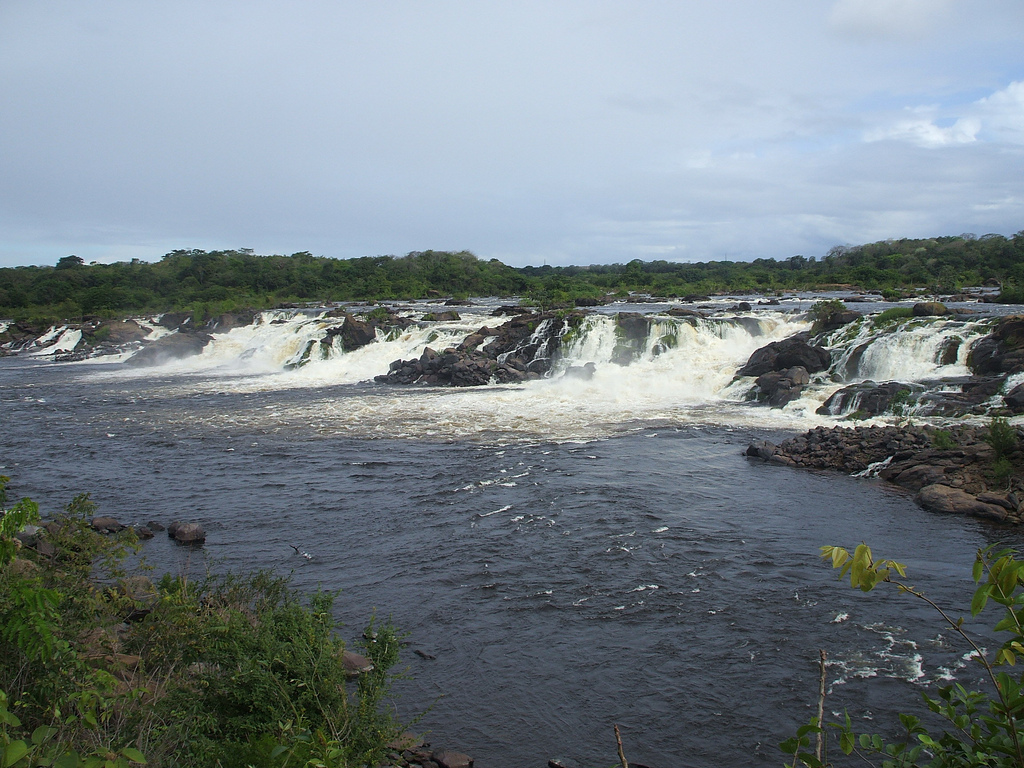 Río Caroní rapids at Parque Cachamay near Ciudad Guayana (Venezuela)